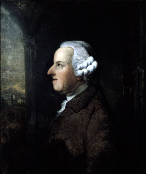 Thomas Gray (Oil on canvas)